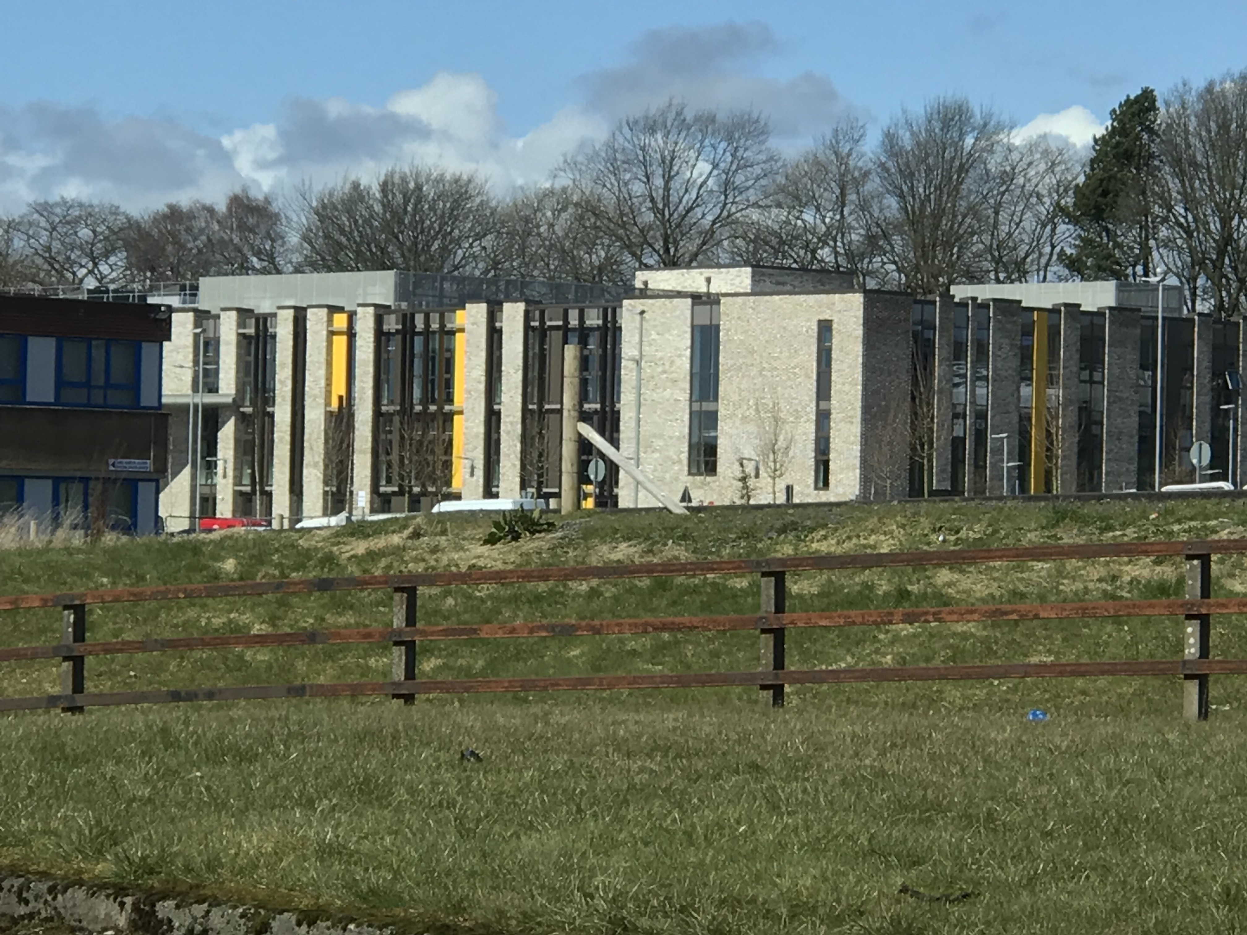 Part of the new Kilmarnock Academy in Kilmarnock